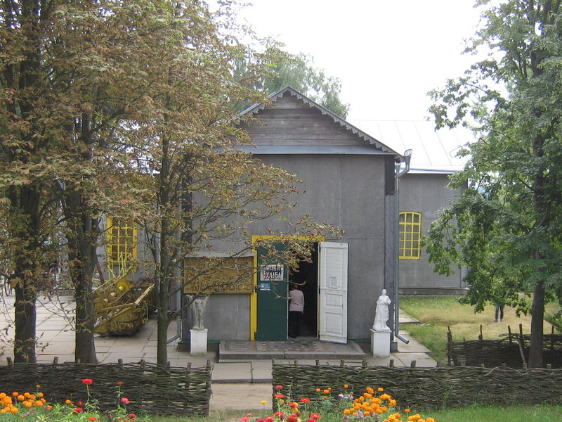 Museum of folk architecture and way of life of Middle Naddnipryanschina